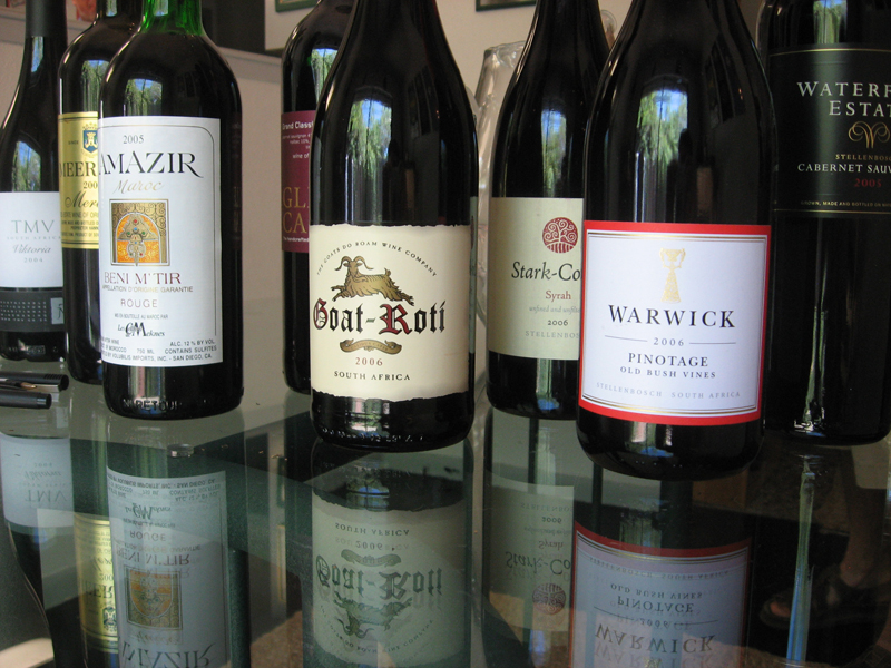 Assorted bottles of South African wines